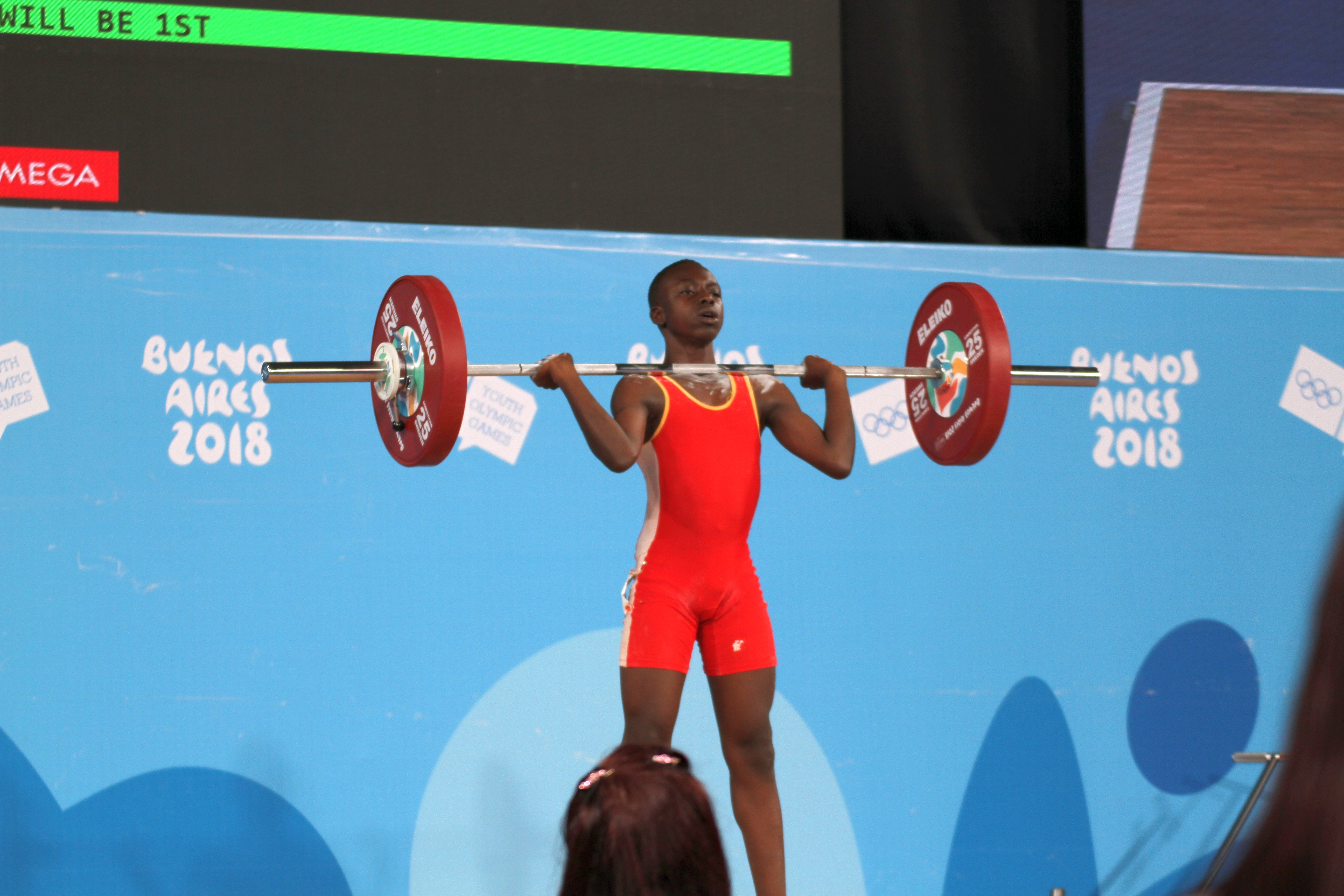 Weightlifting at the 2018 Summer Youth Olympics at 8 October 2018 – Boys' 62 kg